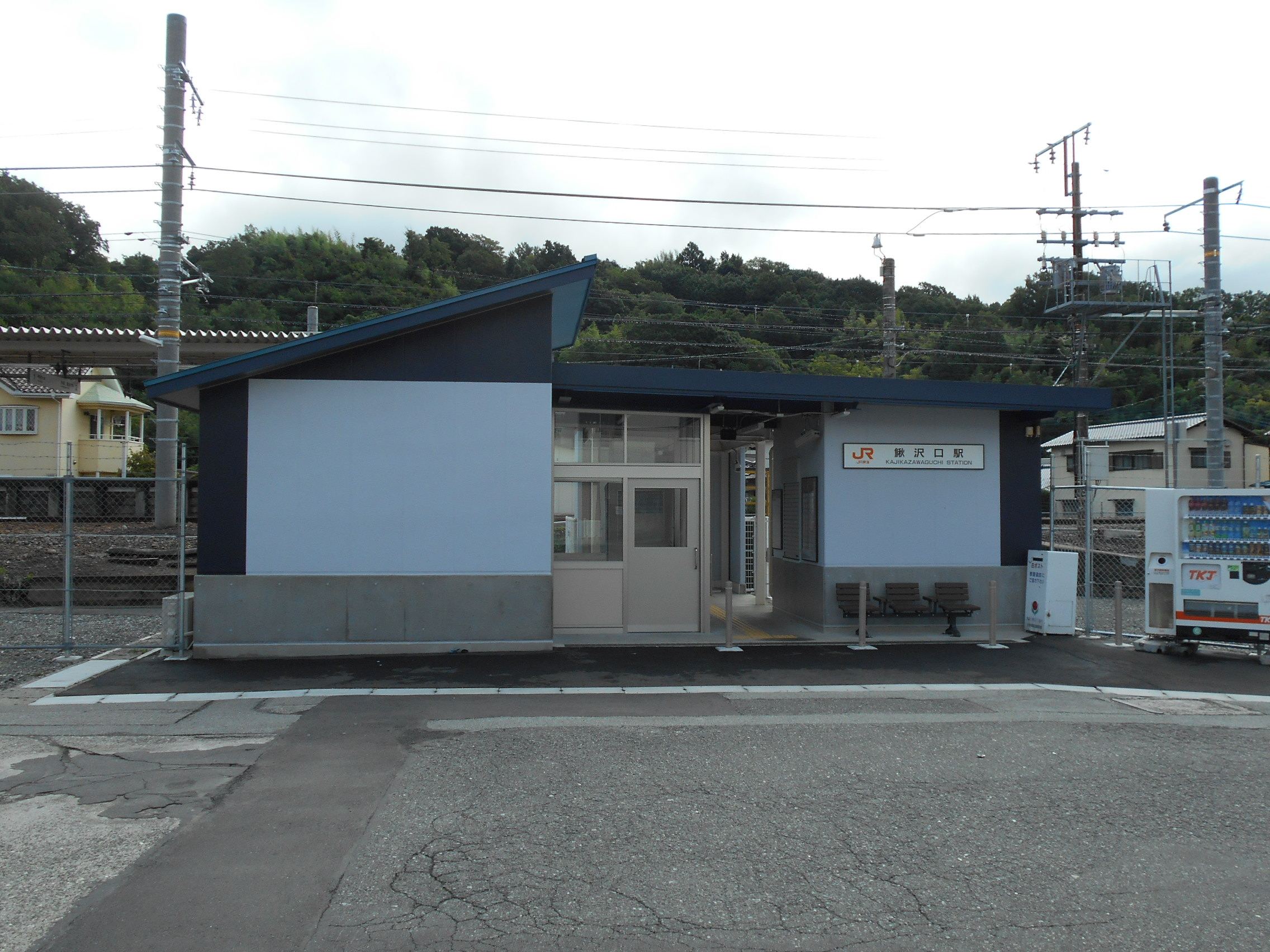 Kajikazawaguchi Station on the Minobu Line